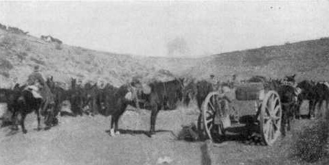 New Zealand Mounted Rifle Brigade first line transport and led horses in Shrapnel Gully during the fighting during the Battle of Tel el Khuweilfe, November 1917 Other information Official history